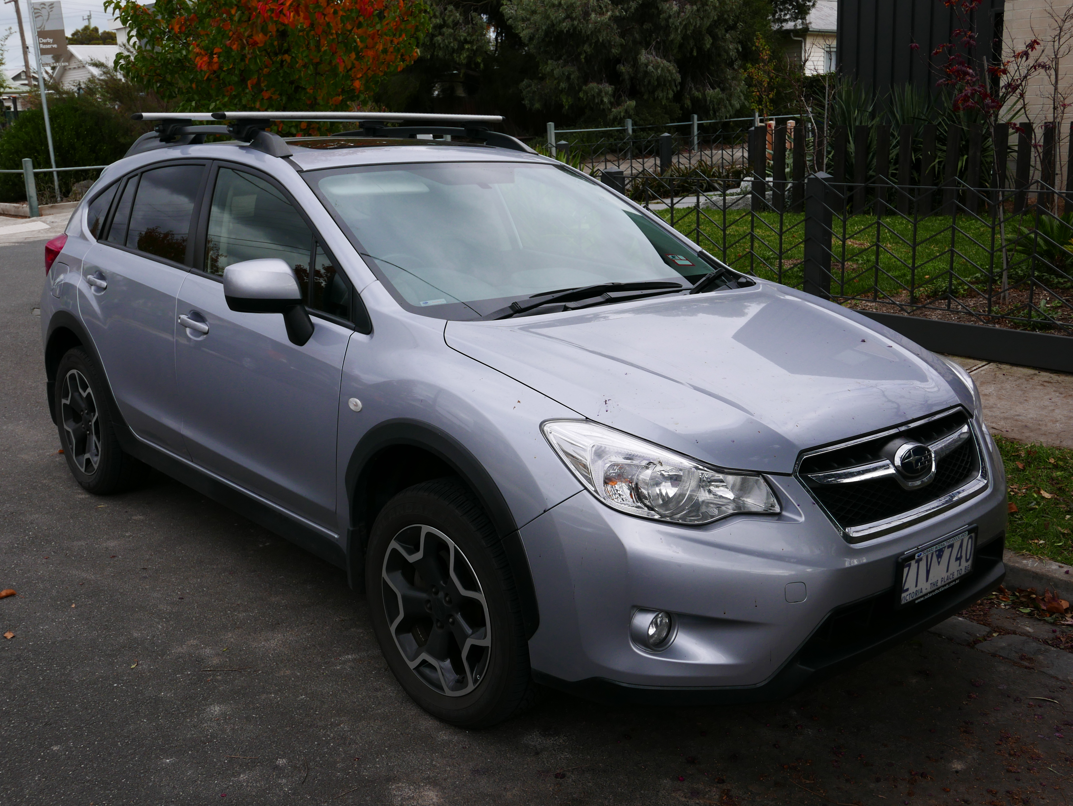 2013 Subaru XV (GP7 MY13) 2.0i-L hatchback. Photographed in Northcote, Victoria, Australia. Vehicle registration enquiry resultsJurisdictionVictoriaRegistrationZTV740Chassis codeJF1GP7KA3DG030646Engine codeR710652Compliance date2013-05Year of manufacture2013